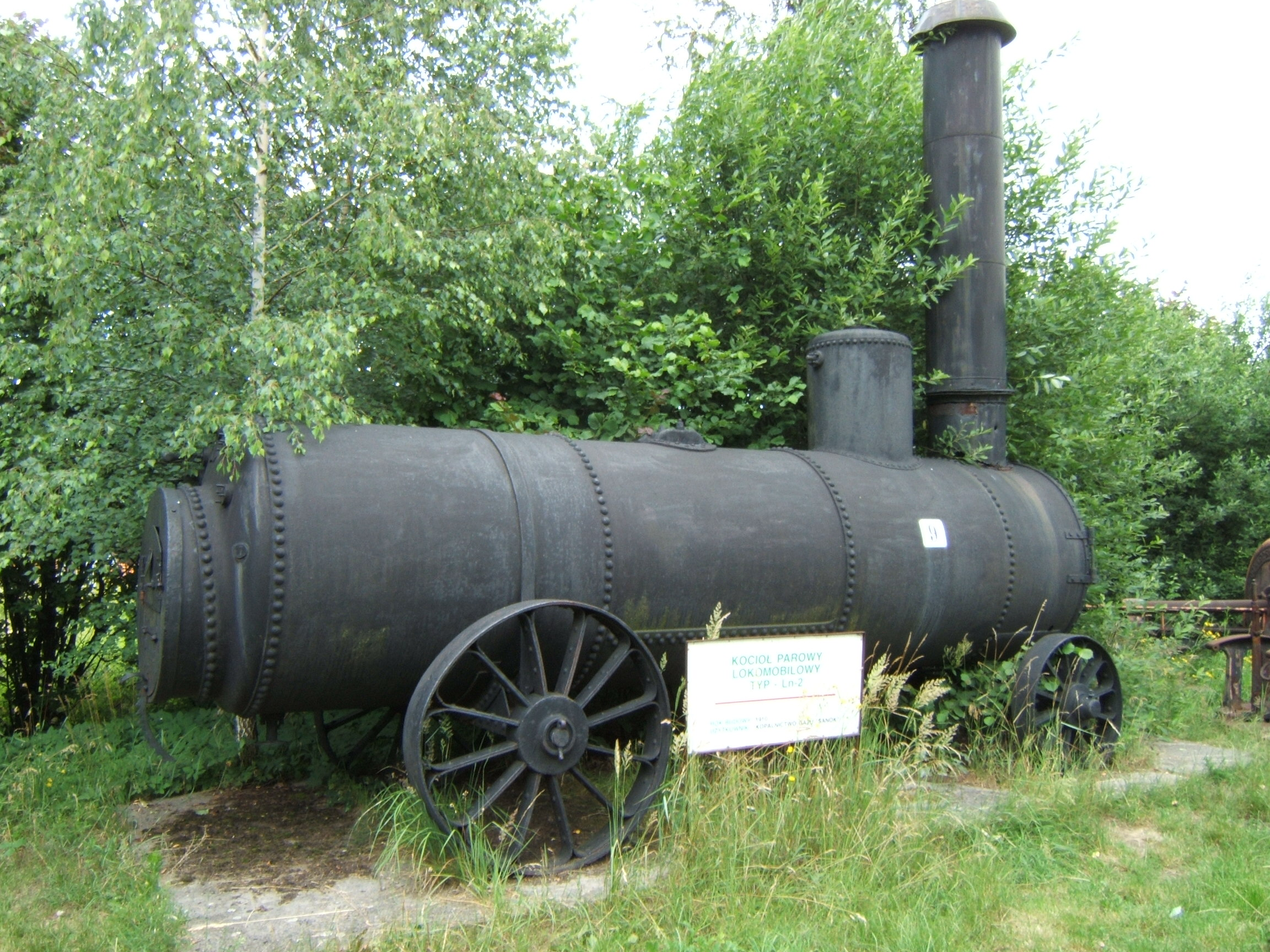 Type Ln2 steam tractor with steam boiler. Exhibit of Steam Machines and Locomotives Heritage Park by historic mine in Tarnowskie Góry. (Although this looks like a Portable engine, the absence of any engine components shows that this is, in fact, a portable boiler.)